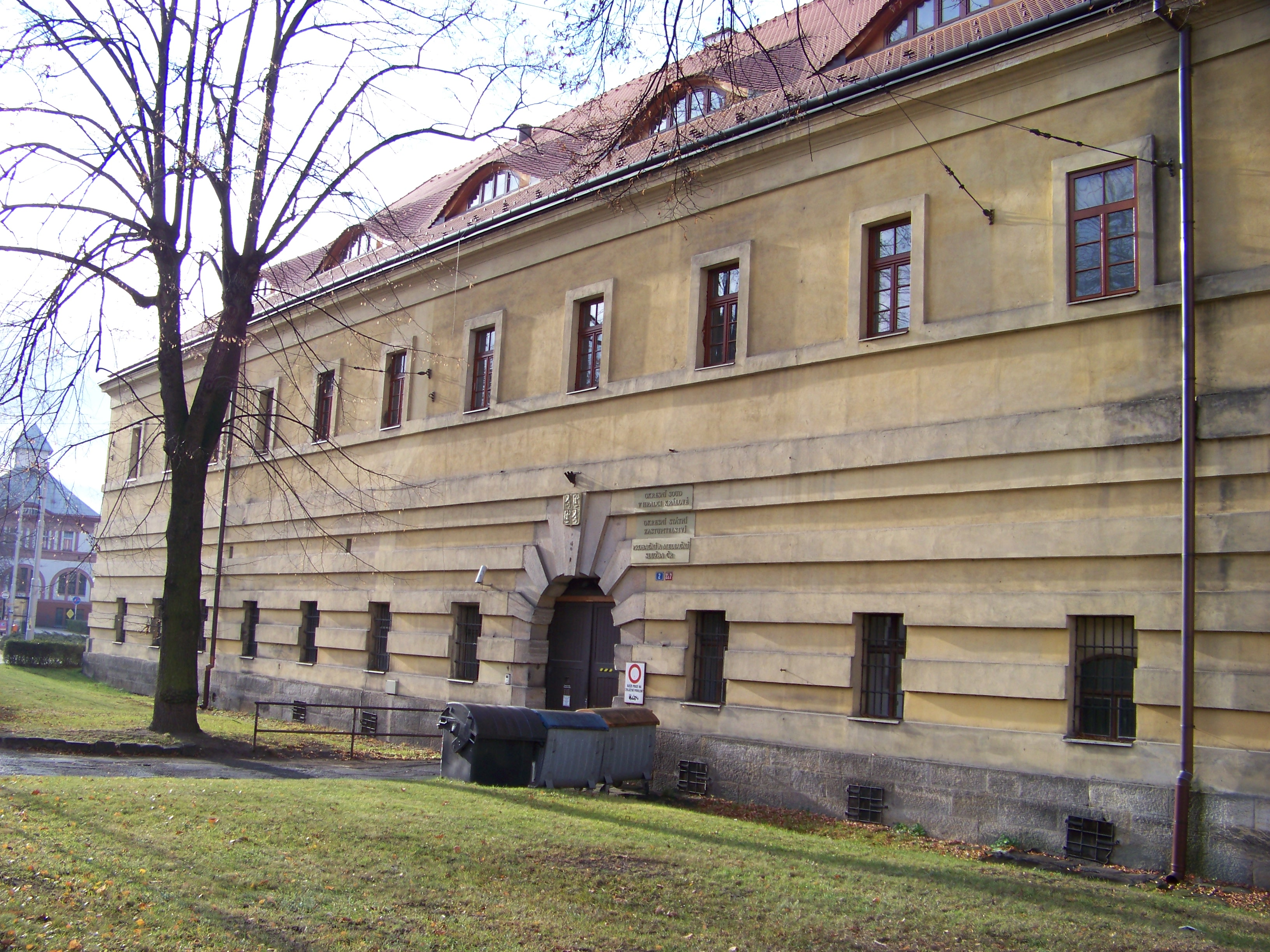 Hradec Králové, Hradec Králové District, Hradec Králové Region, the Czech Republic. Ignáta Hermanna street, a district court. - Google Maps - Google Earth